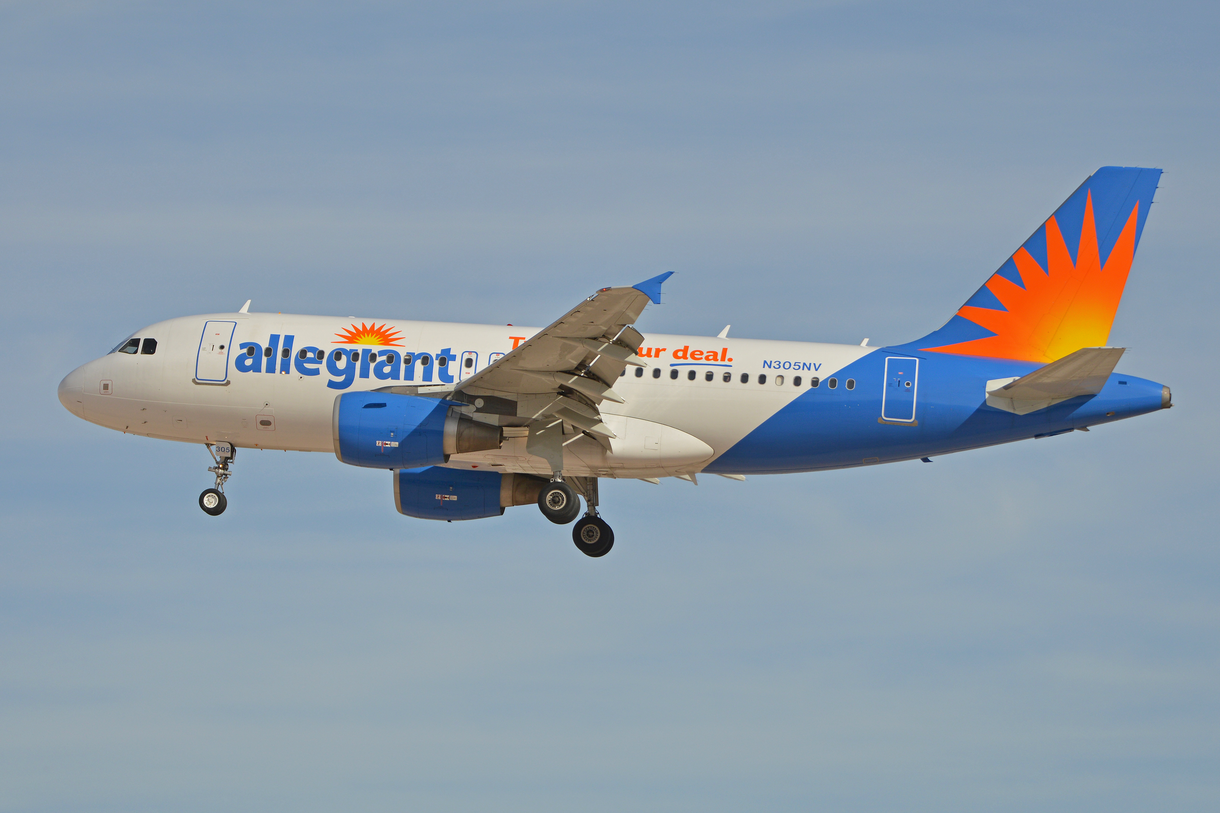 c/n 2398. Built 2005. Seen arriving on flight AAY1308 from Cincinnati. McCarran International Airport, Las Vegas, NV, USA. 2nd March 2016.